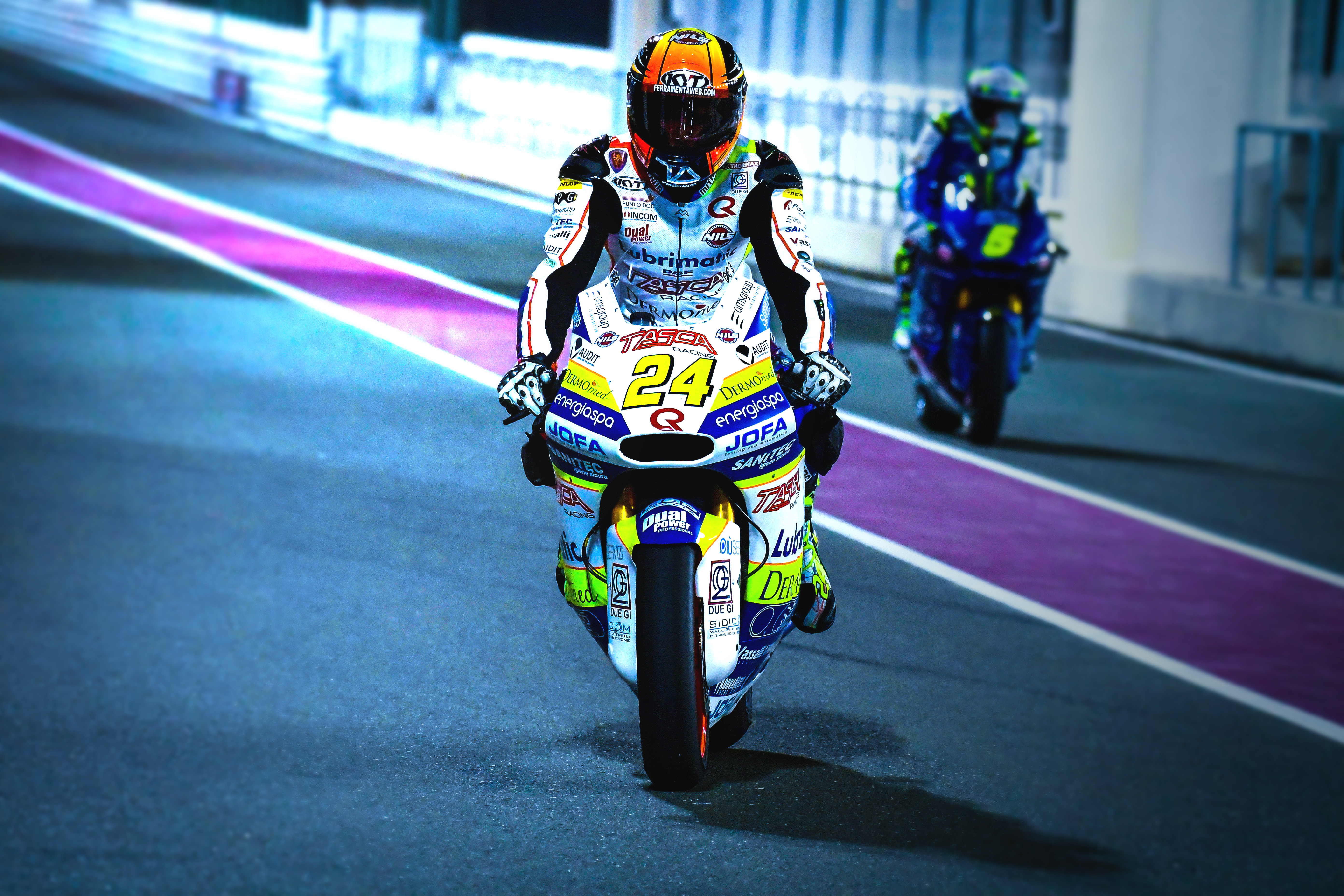 Simone Corsi sulla Kalex 2017 del team Tasca Racing